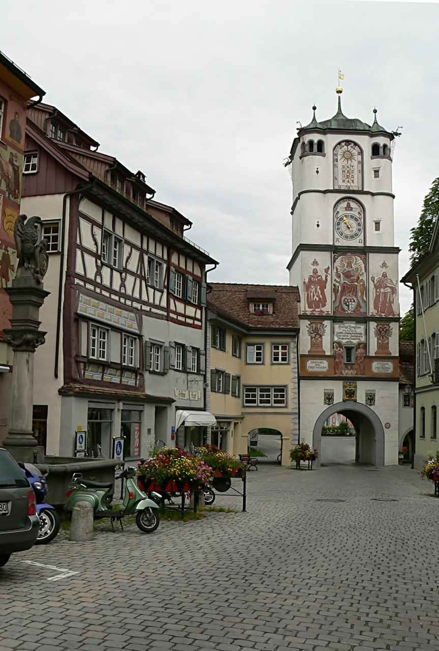 Town Gate „Ravensburger Tor“ in Wangen im Allgäu, Germany